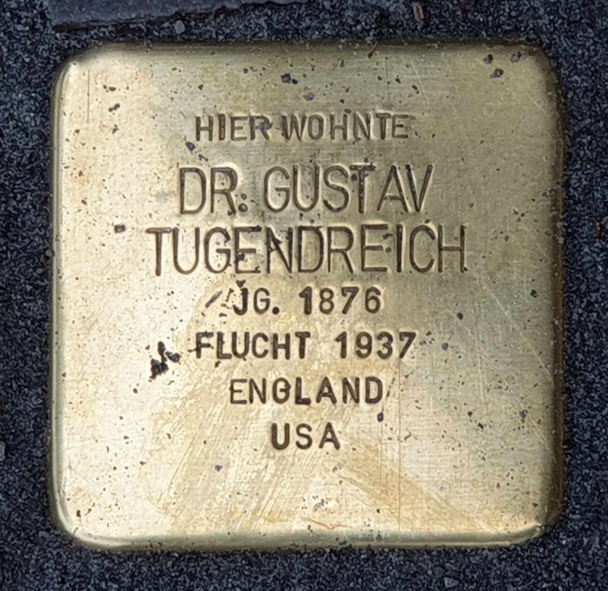 "Stolperstein" (stumbling block), Gustav Tugendreich, Reichsstraße 104, Berlin-Westend, Germany